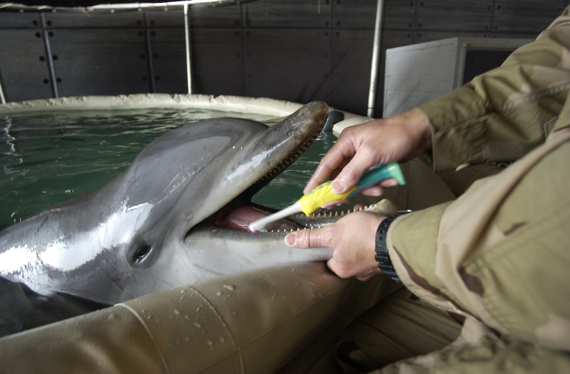 Central Command Area of Responsibility (Mar. 17, 2003) -- Signalman 2nd Class Diver (DV) Harlold Bickford a mammal handler from Commander Task Unit (CTU-55.4.3) brushes the teeth of a Bottle Nose Dolphin in the well deck aboard the USS Gunston Hall (LSD 44) operating in the Arabian Gulf. CTU-55.4.3 is a multinational team consisting of Naval Special Clearance Team-One, Fleet Diving Unit Three from the United Kingdom, Clearance Dive Team from Australia, and Explosive Ordnance Disposal Mobile Units Six and Eight (EODMU-6 and EODMU-8). These units are conducting deep/shallow water mine counter measure operations to clear shipping lanes for humanitarian relief. CTU-55.4.3 and USS Gunston Hall are currently forward deployed conducting missions in support of Operation Iraqi Freedom, the multinational coalition effort to liberate the Iraqi people, eliminate Iraq's weapons of mass destruction, and end the regime of Saddam Hussein. U.S. Navy photo by Photographer’s Mate 1st Class Brien Aho. (RELEASED)